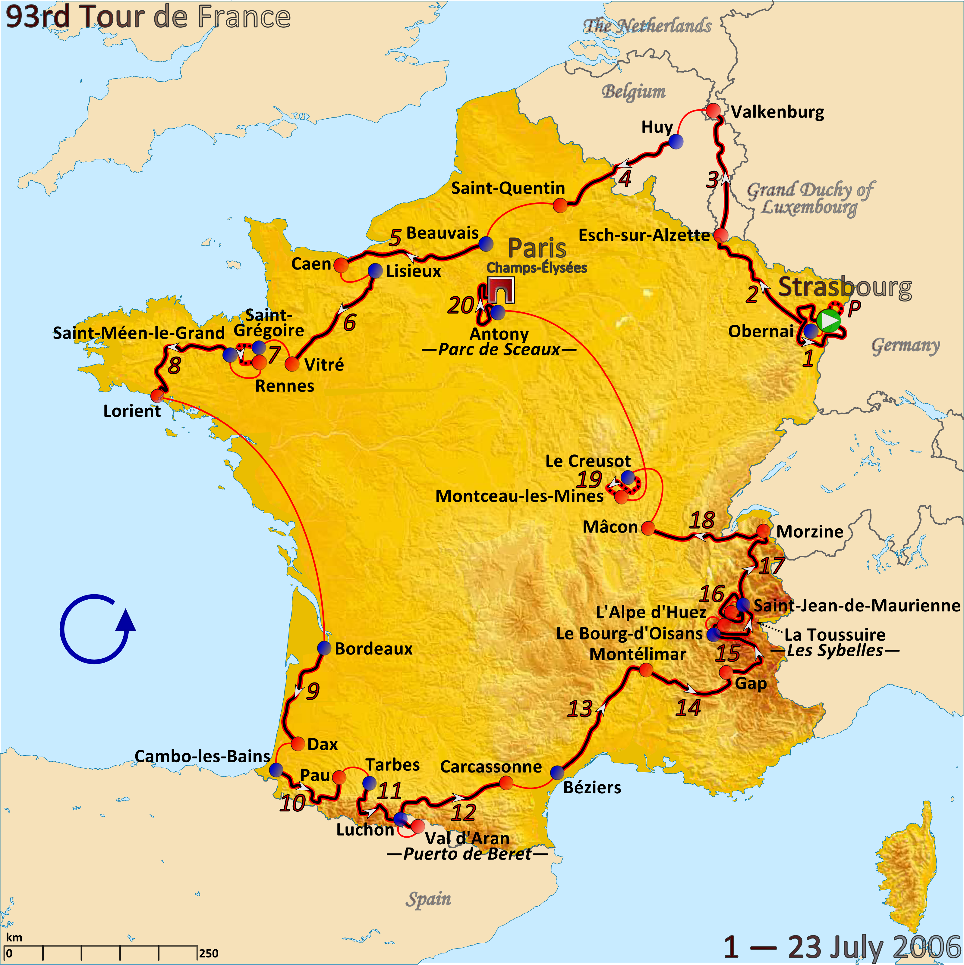 Map of the 2006 Tour de France created in Inkscape